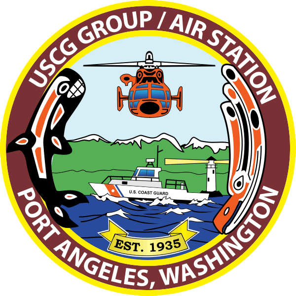 AIRSTA Port Angeles patch